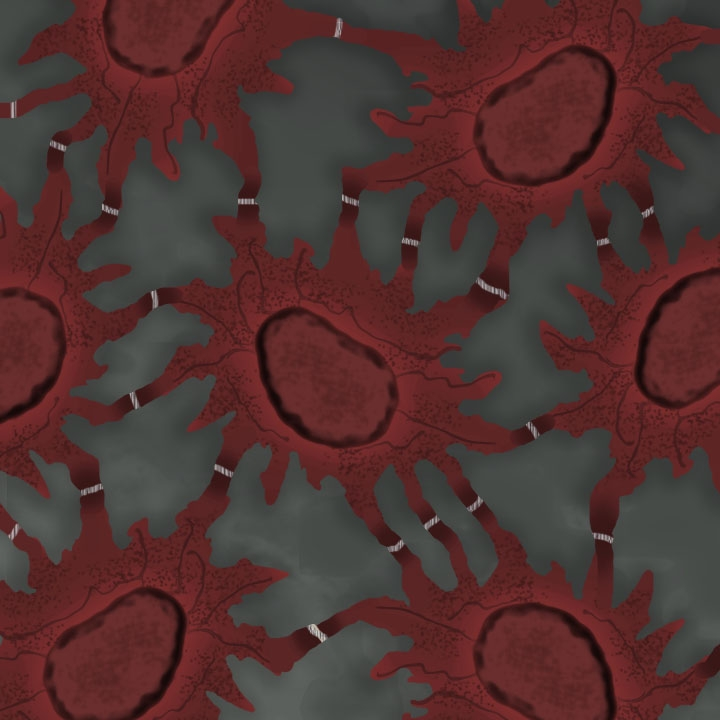 Artist rendering of prickle cells.